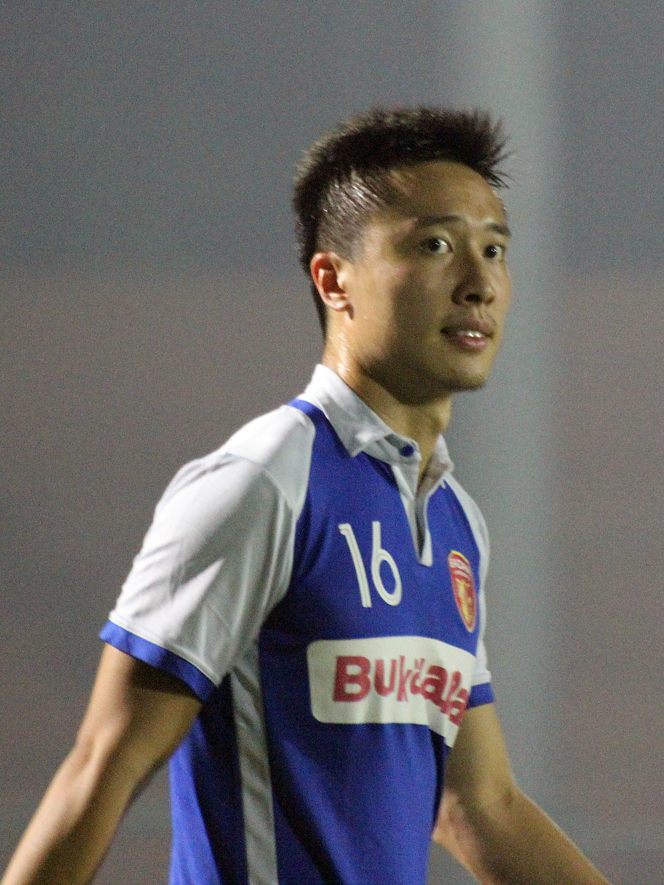 Arthur Irawan Hadi